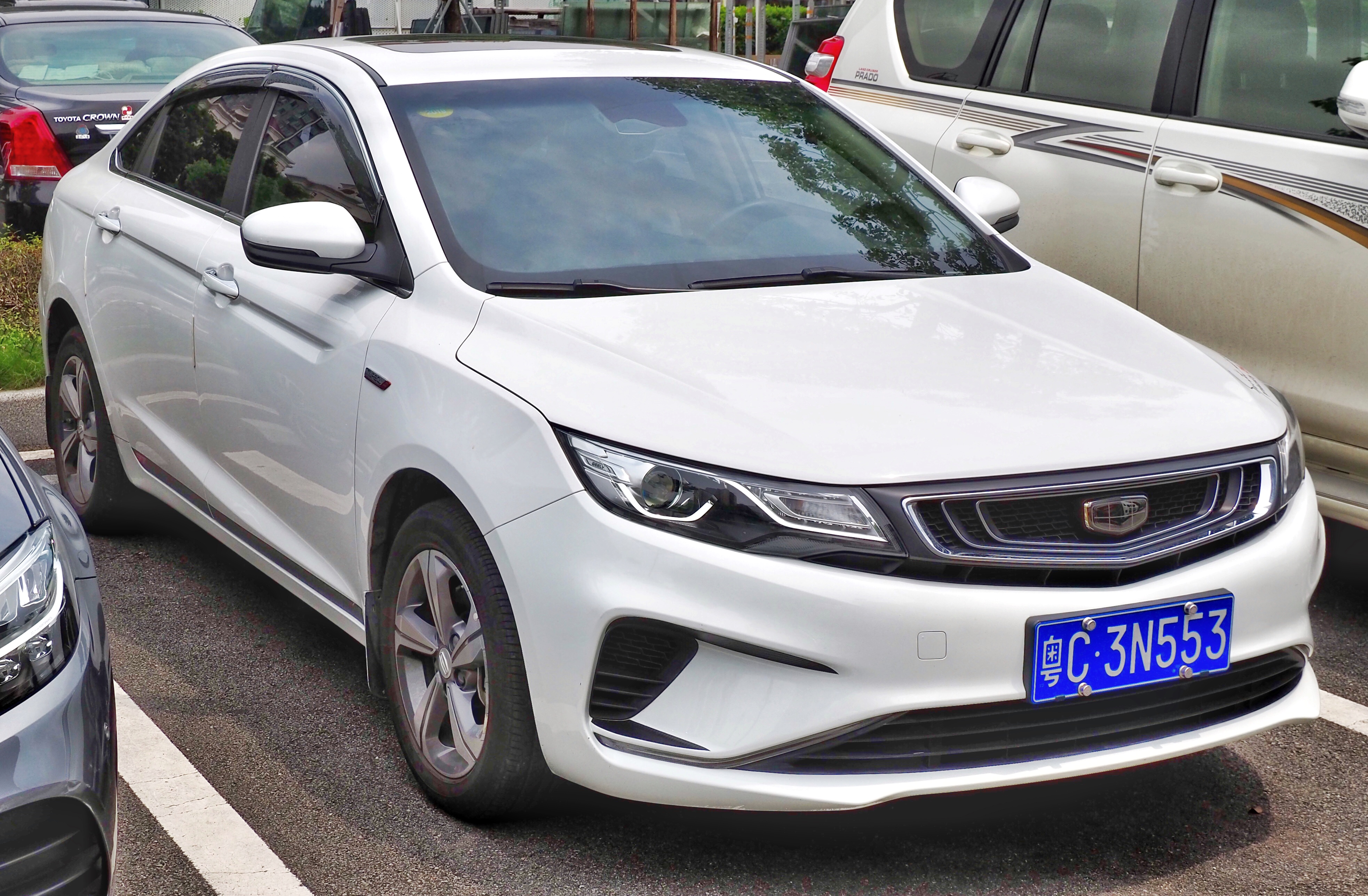 A 2016 Geely Emgrand GL taken in Zhuhai, Guangdong province, China. 中文（中国大陆）: 一辆2016年的吉利帝豪GL，摄于中国广东省珠海市。